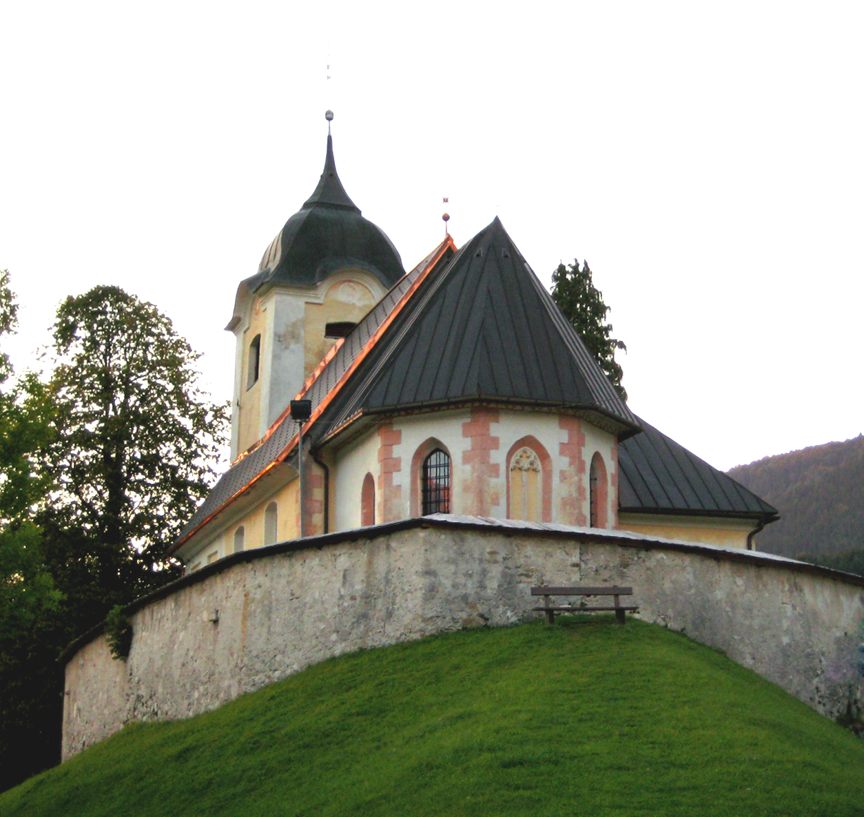 Holy Spirit Parish Church, Rateče (northwestern Slovenia).